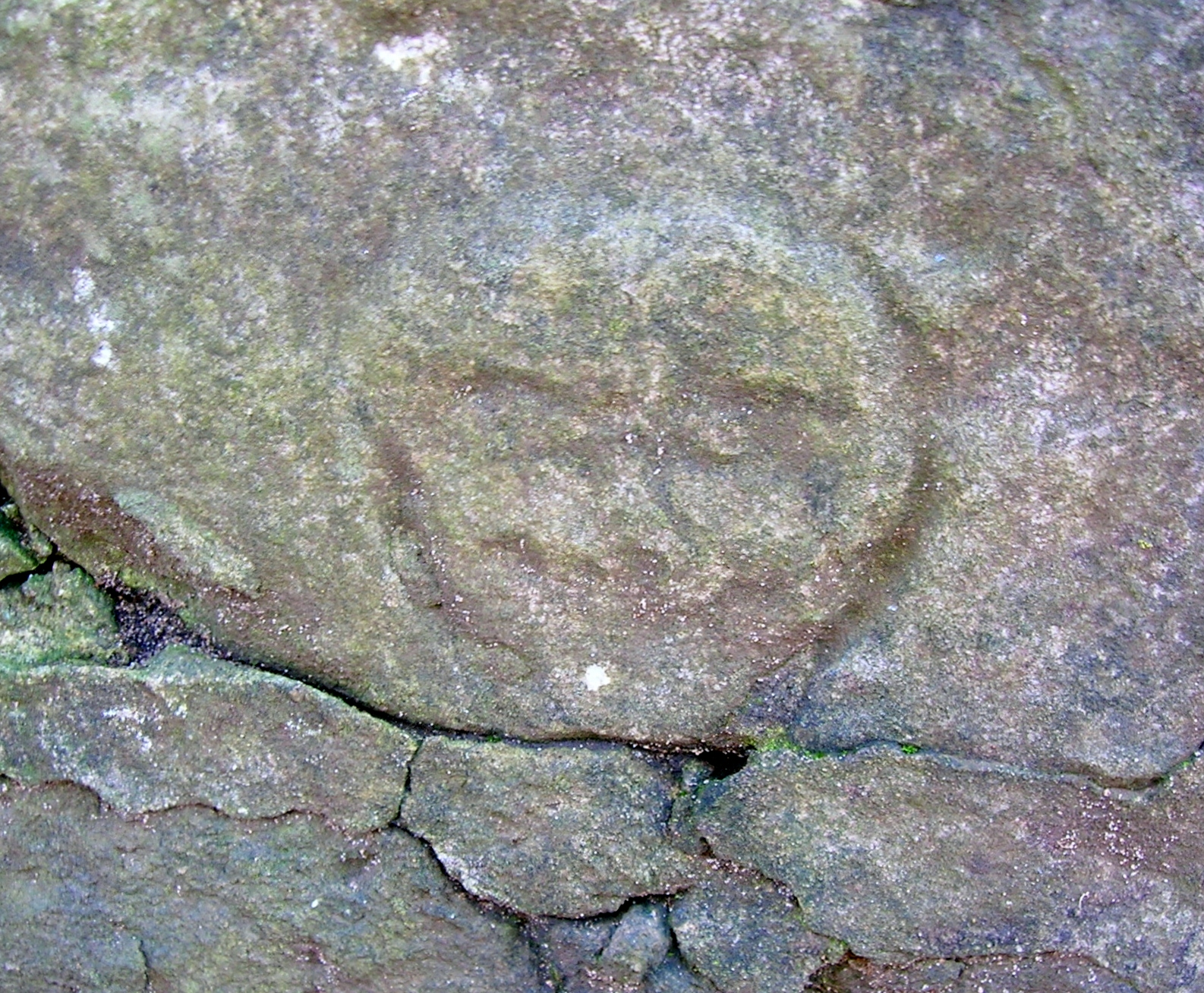 Carved head in a wall near the Chapel Well, Irvine, North Ayrshire, Scotland